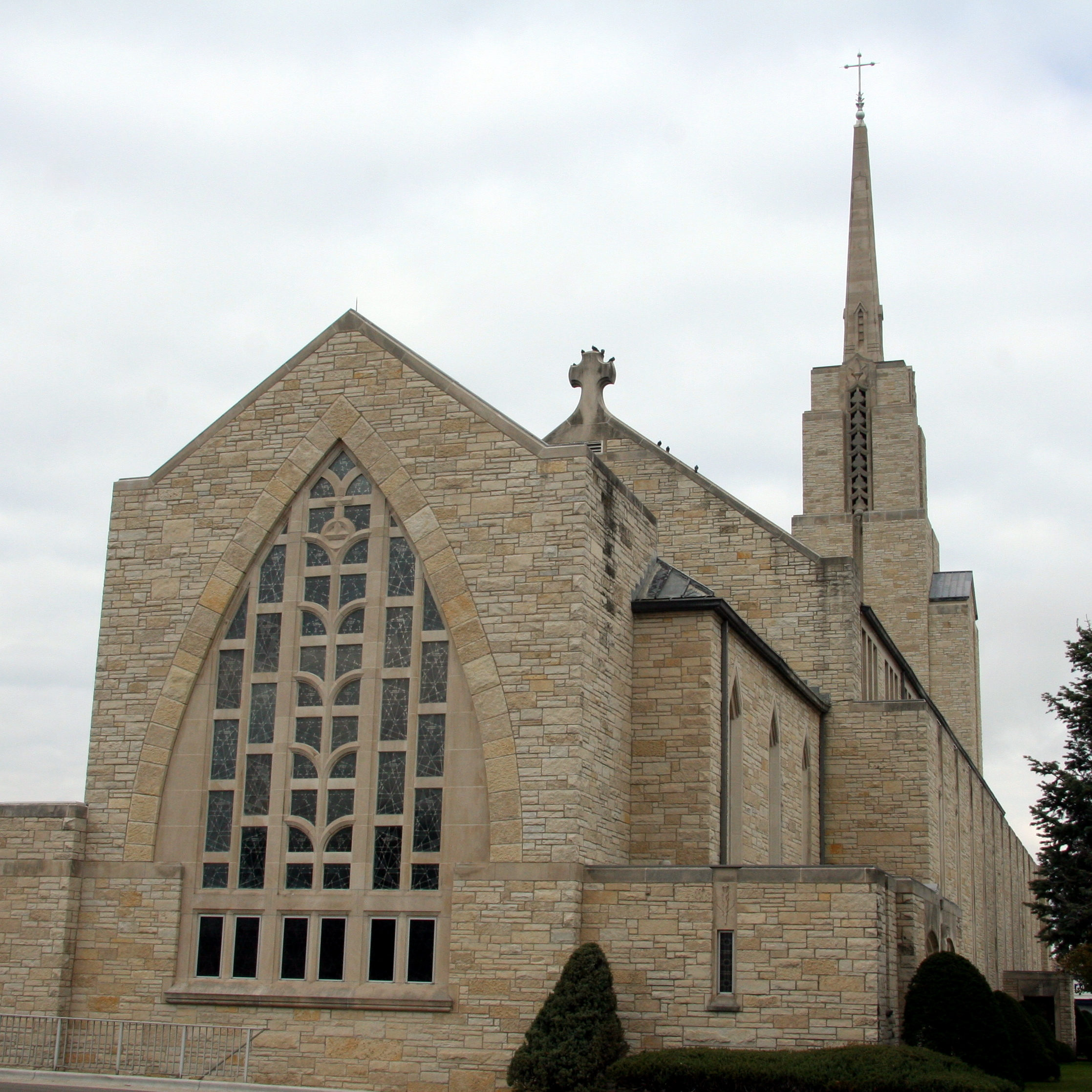 The south side of the Cathedral of St. Joseph the Workman, 530 Main Street, La Crosse, Wisconsin